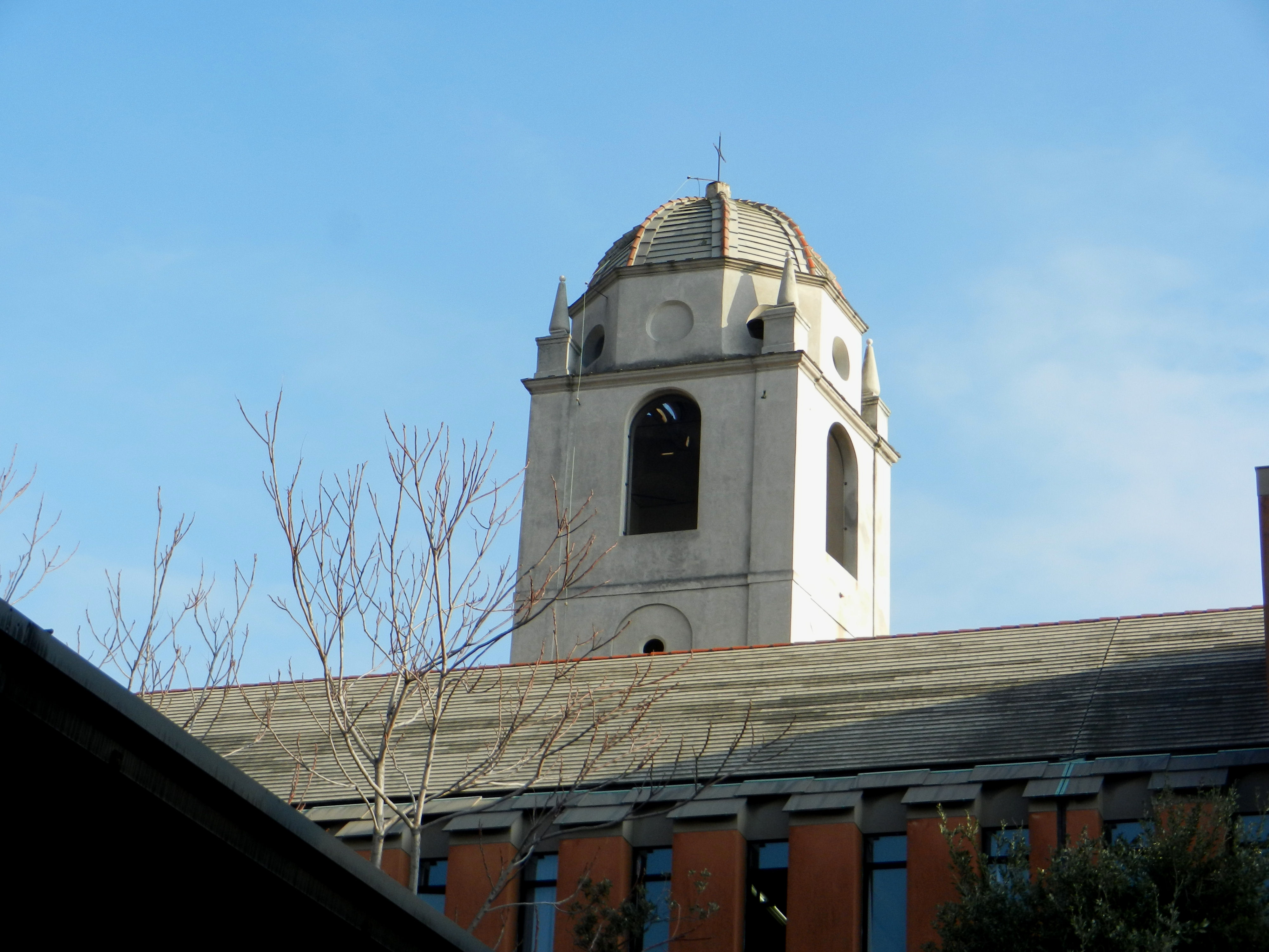 Genoa, Italy, quarter of Molo, the bell tower of ruined monastery of San Silvestro